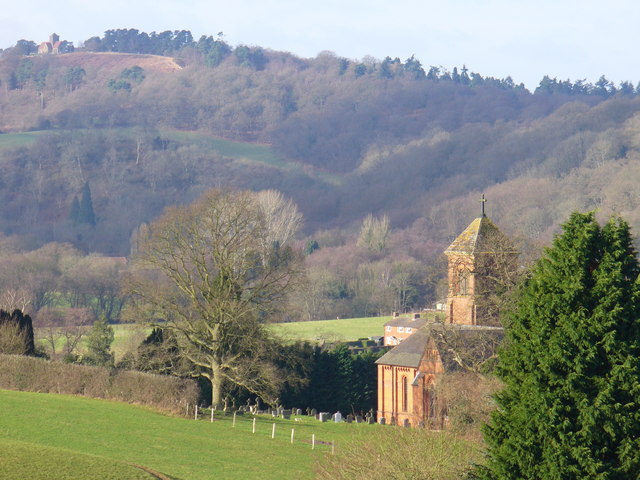 Albury Church The 19th century parish church of St Peter and St Paul with St Martha's Hill, and hilltop church, in the background.